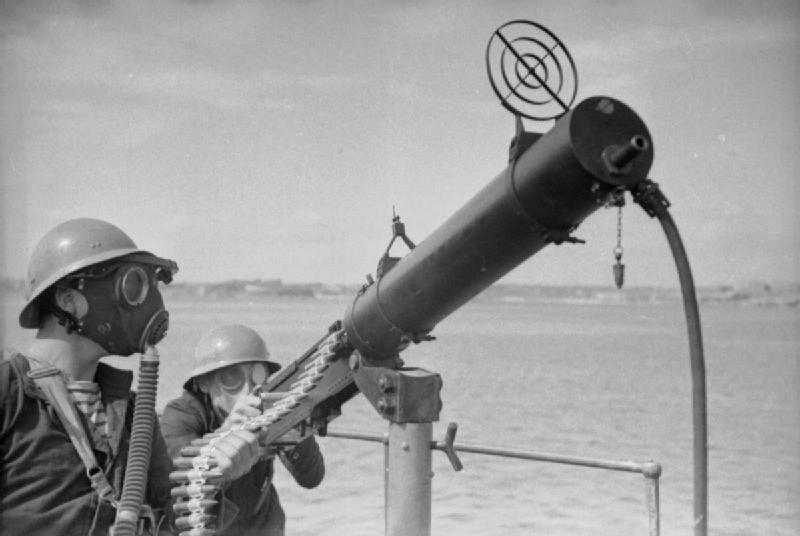 The French Browning Machine Gun being manned by two crew members wearing gas masks. They are on board the French sloop FFS COMMANDANT DUBOC at Plymouth. The ship is manned entirely by Free Frenchmen. Note the pipe leading out of the jacket of the machine gun to allow the liquid coolant to work.